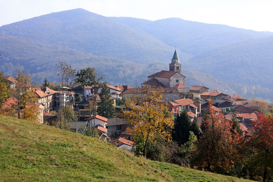 View of Coiromonte, Armeno, Novara, Italy